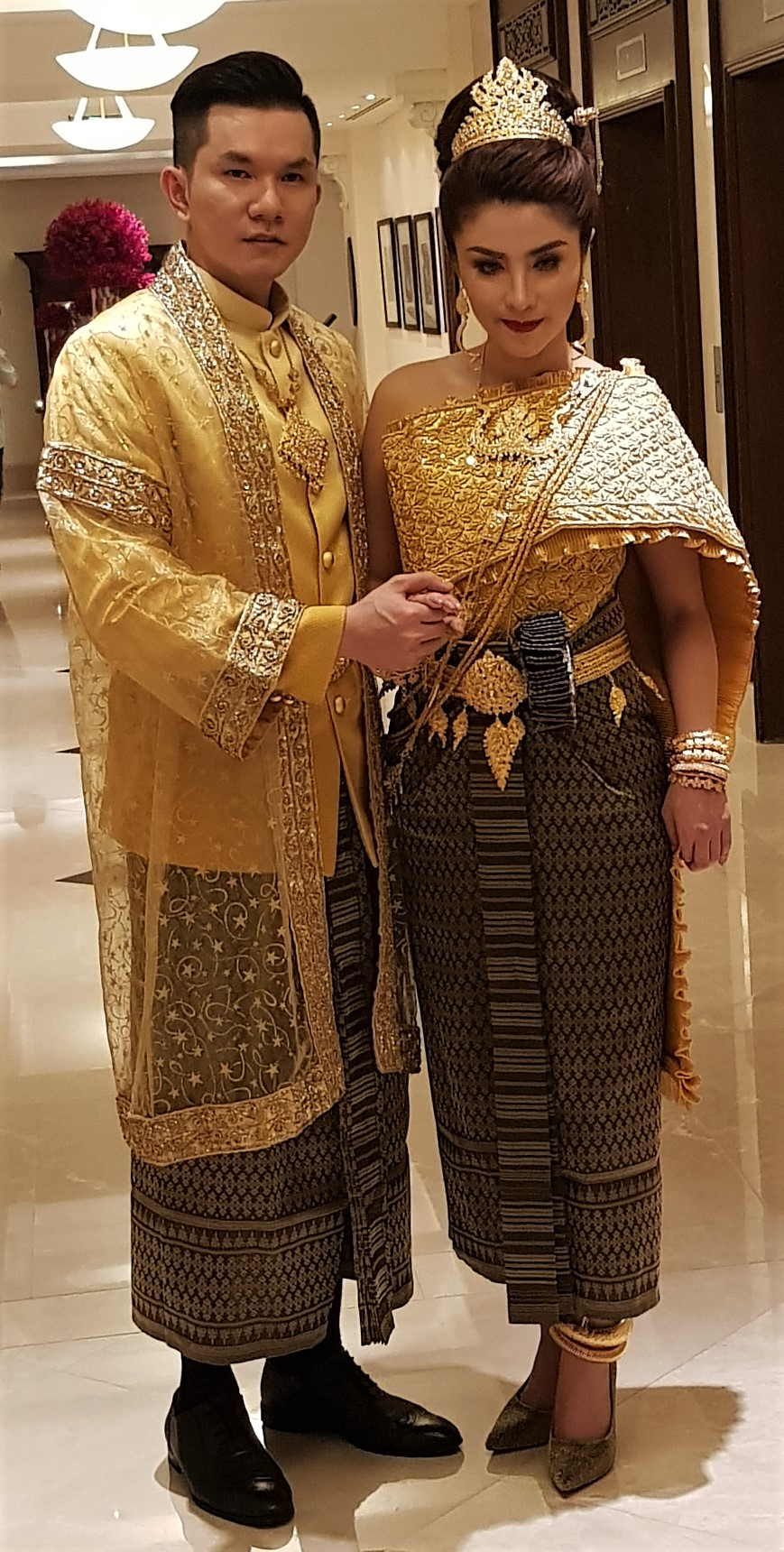 Cambodian couple dressed in Sampot Chorabap.